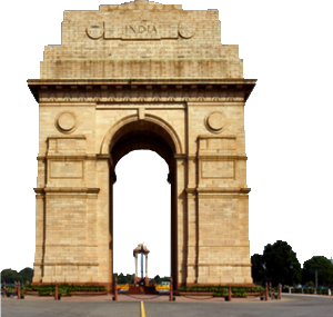 Picture of India Gate with Transparent Background